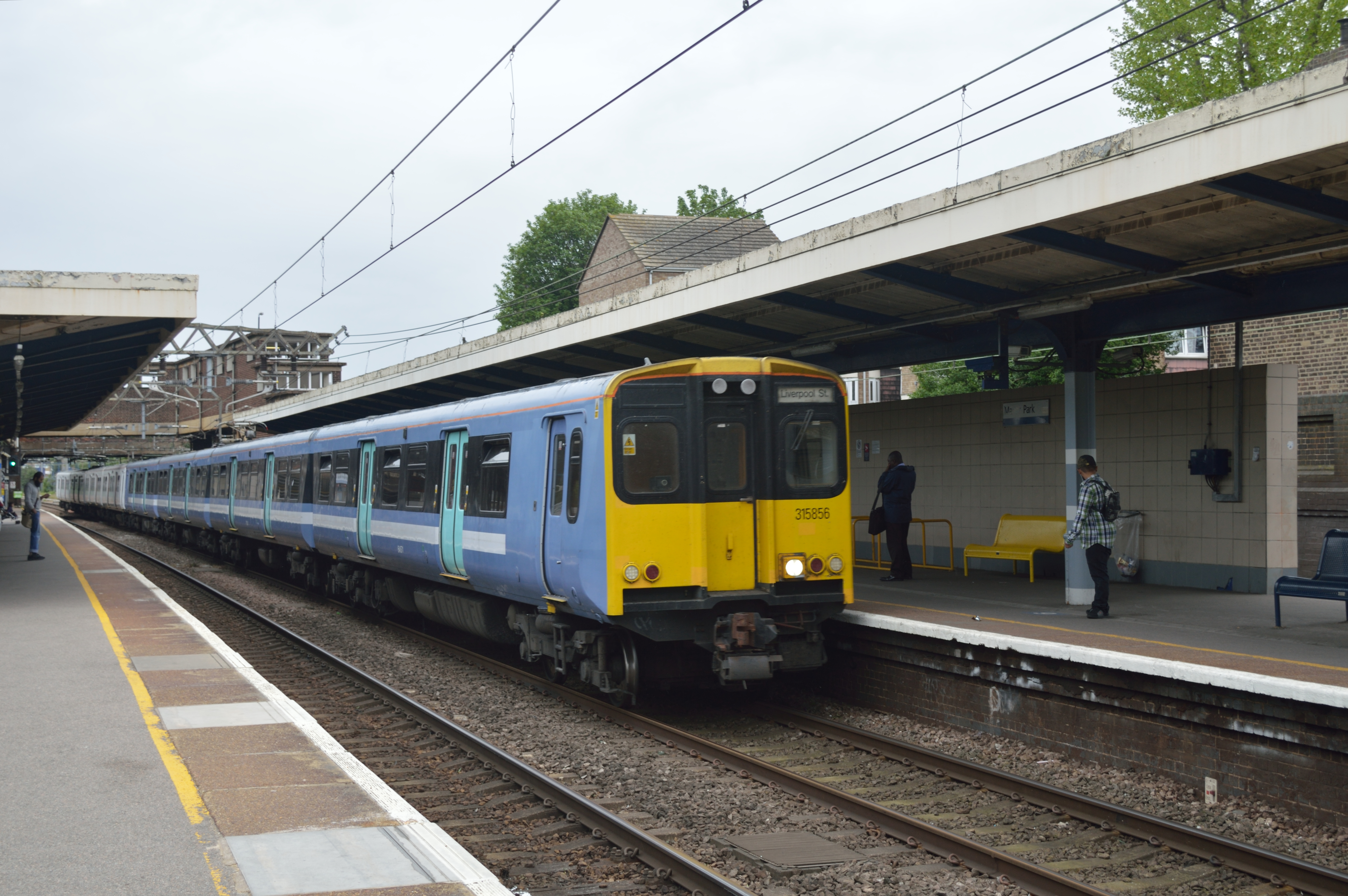 315.856 with 315.840 behind stops at Manor Park station on the busy Great Eastern mainline on 8 May 2015. Train 2W15, 15:14 Shenfield to London Liverpool Street. This busy service (6 trains per hour weekdays, off peak) was in the hands of Abellio Greater Anglia. From 31 May 2015, this route is handed over to Transport for London under a temporary branding of TfL Rail. This is the first stage of the Crossrail project. Class 315s used on this service along with others out of London Liverpool Street are due to be retired from service having been introduced in the early 1980s.